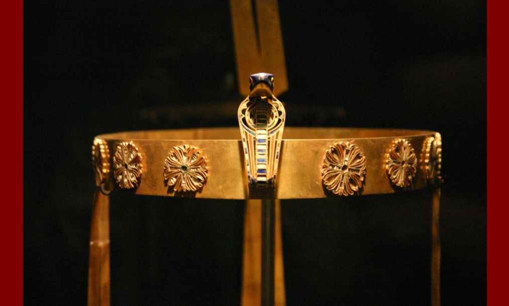 The Diadem or Crown of Princess Sit-Hathor Yunet from her tomb. She was the daughter of the 12th dynasty pharaoh, Senusret II, and the sister of pharaoh Senusret III. This masterpiece of Ancient Egyptian art work is now located in the Cairo Museum.